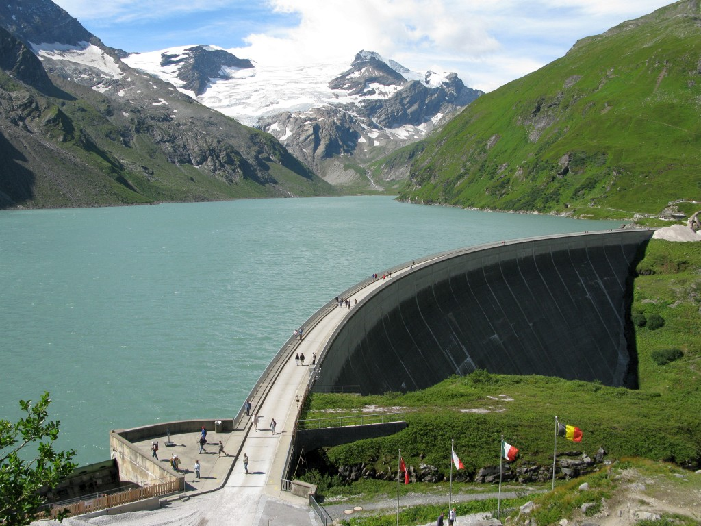 Power Plant „Stausee Mooserboden“ with dam "Drossensperre" near Kaprun 2008.